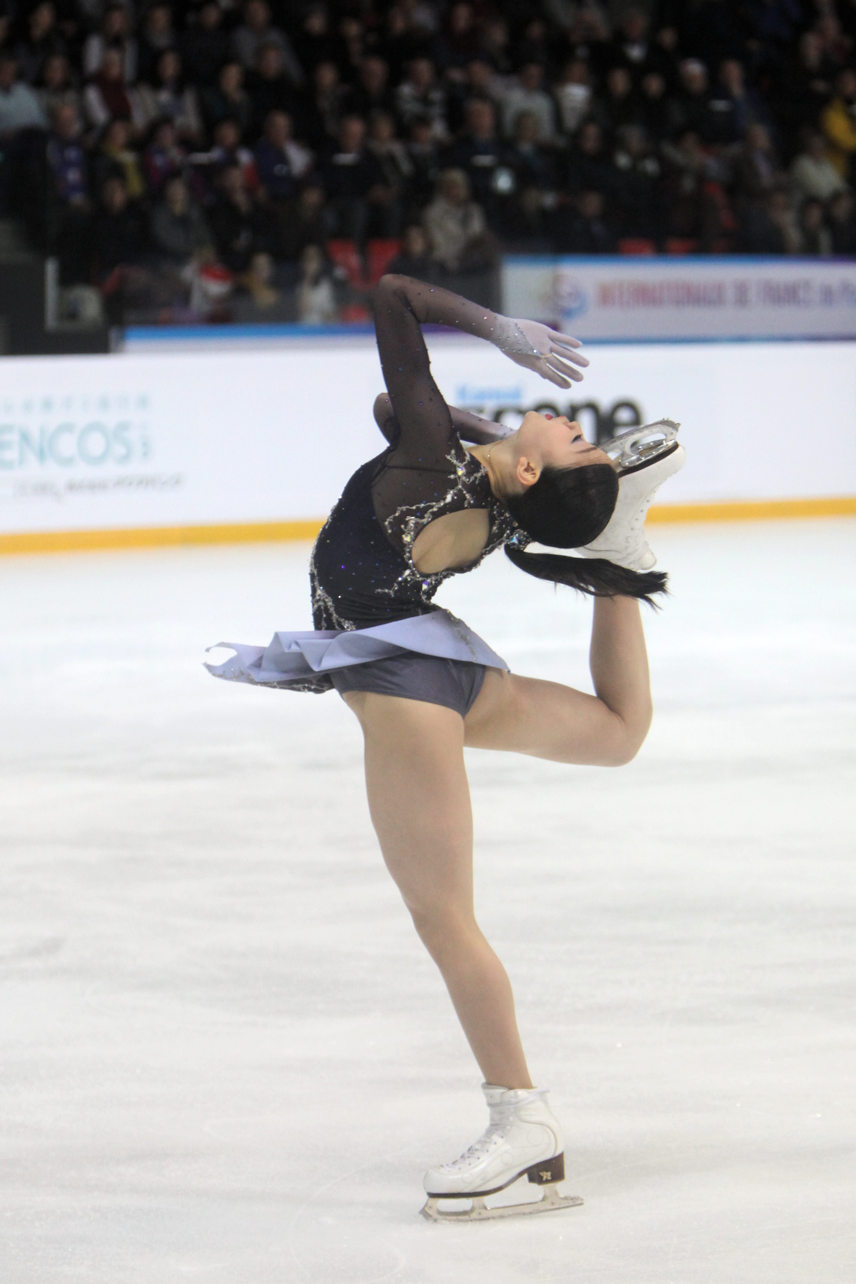 Rika Kihira during the Ladies Free Skating at the Internationaux de France de Patinage 2018.